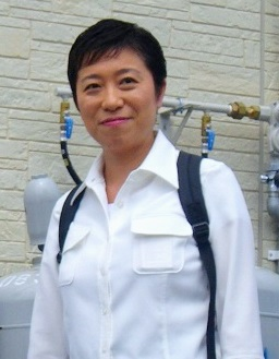 Kiyomi Tsujimoto during inspection visit to Kesennuma, Miyagi.